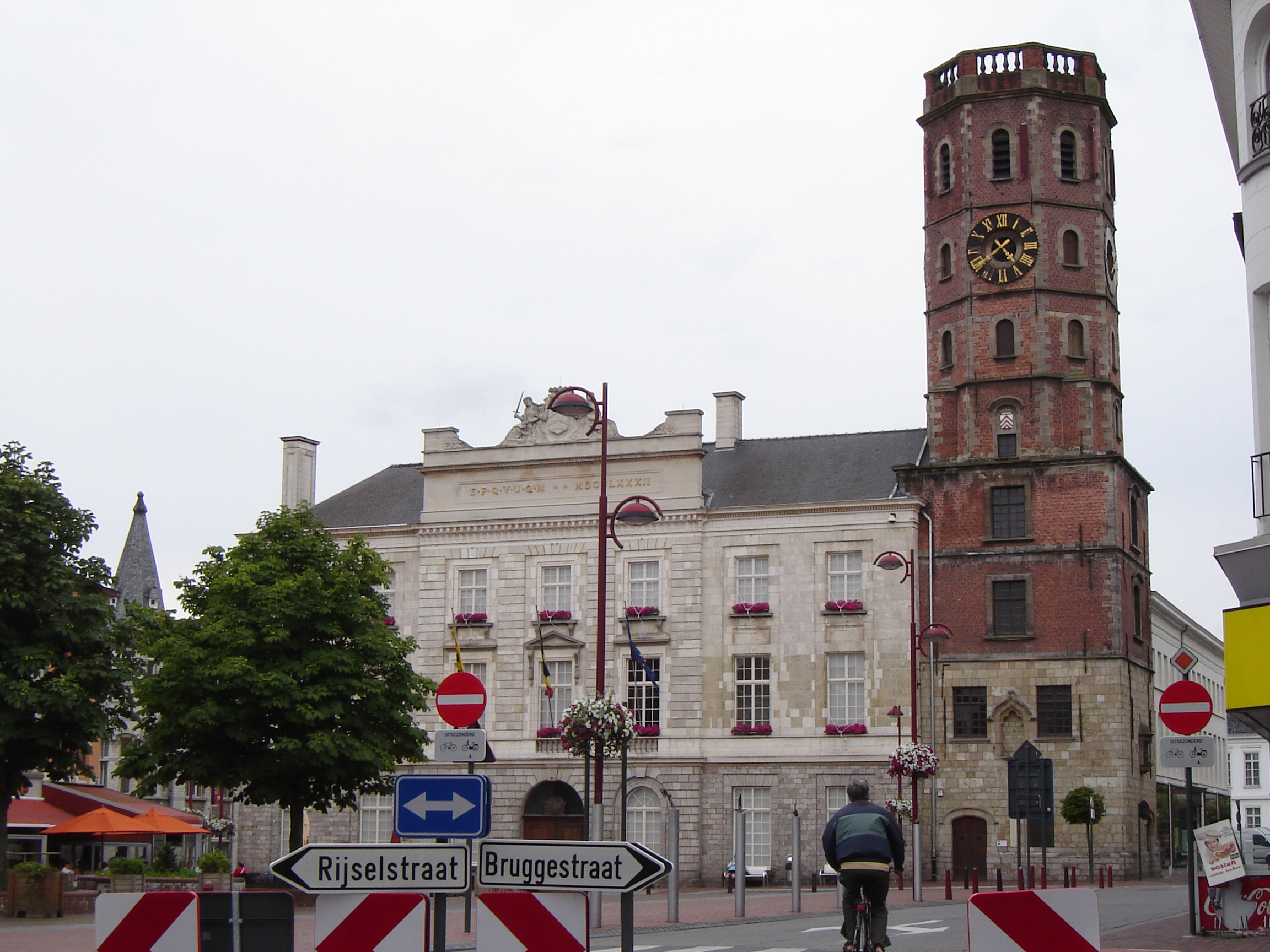 City hall and belfry of Menen. Menen, West Flanders, Belgium